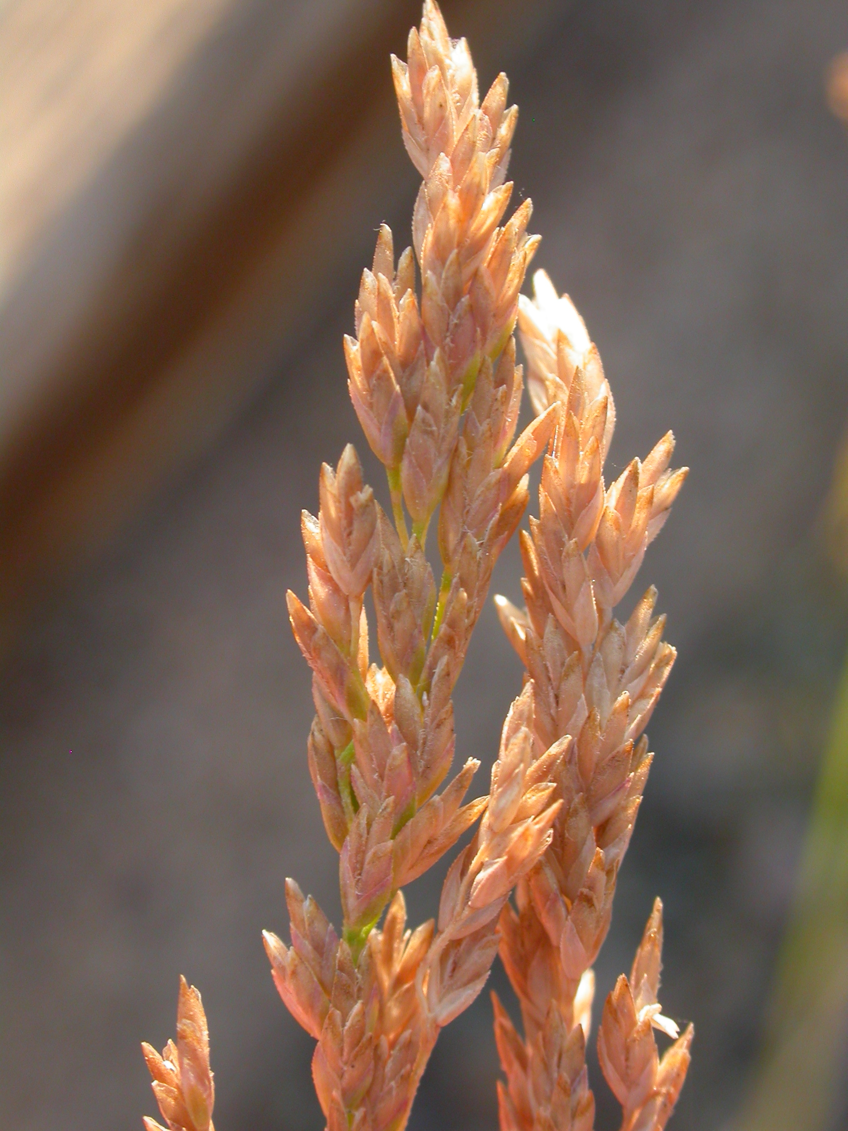 The narrow or contracted panicle comprises small spiklets (mostly 2-3 mm long).